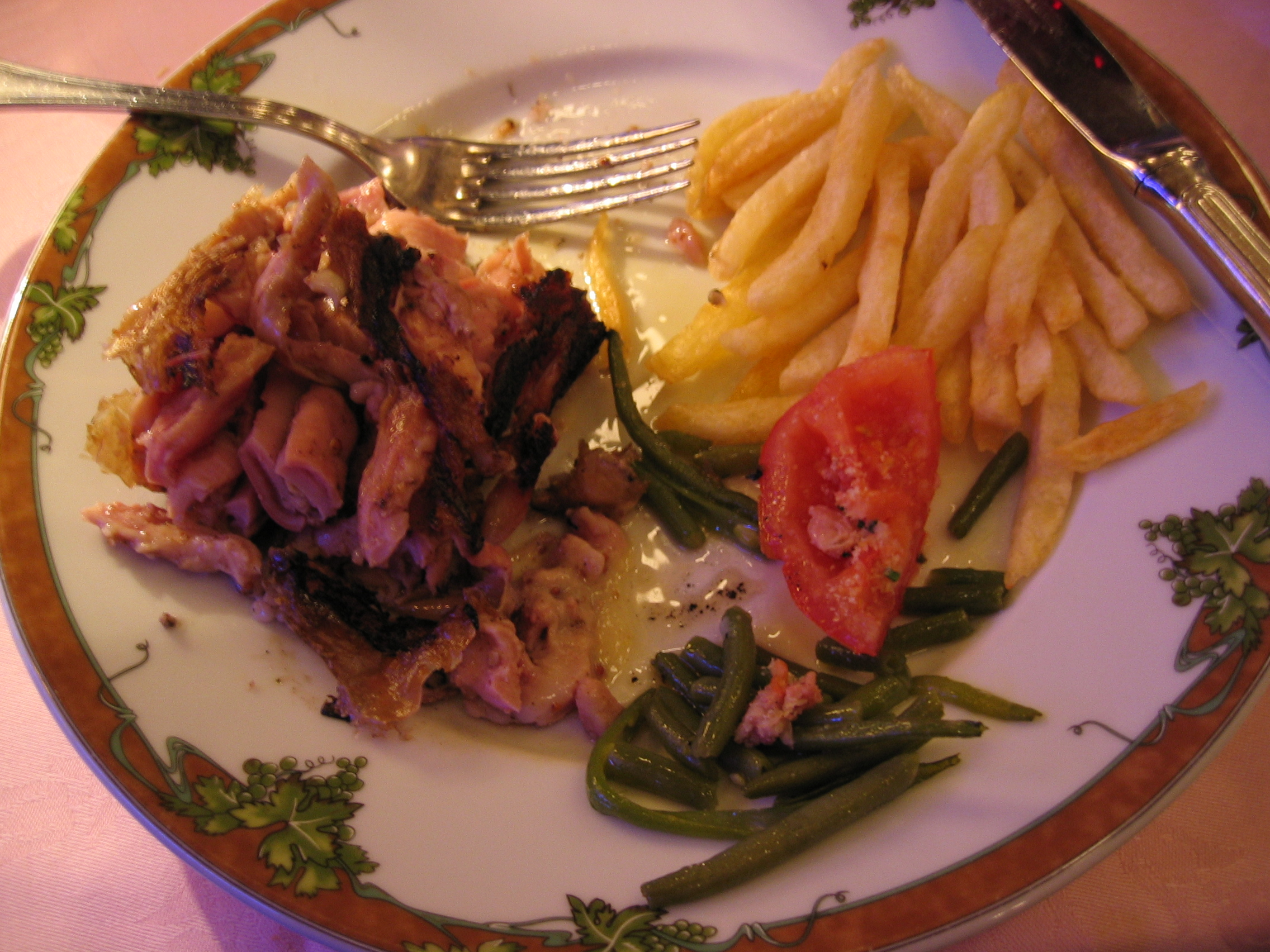 An andouillette sausage with the casing removed, displaying the contents. Green beans, French fries, and a tomato on the side. From a restaurant in Reims, France.